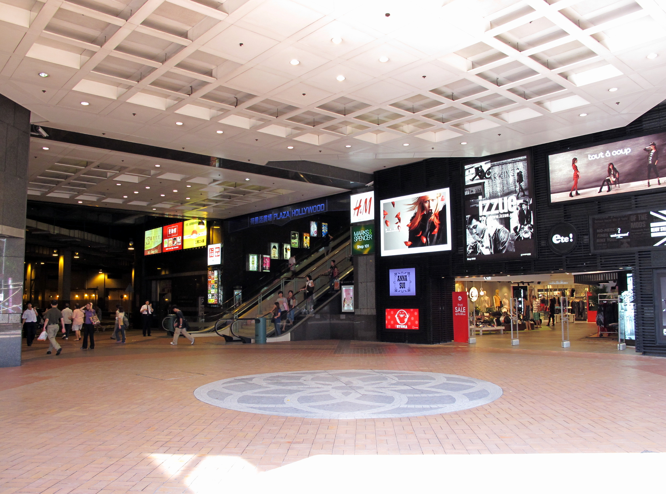 Plaza Hollywood Ground Floor Enterance